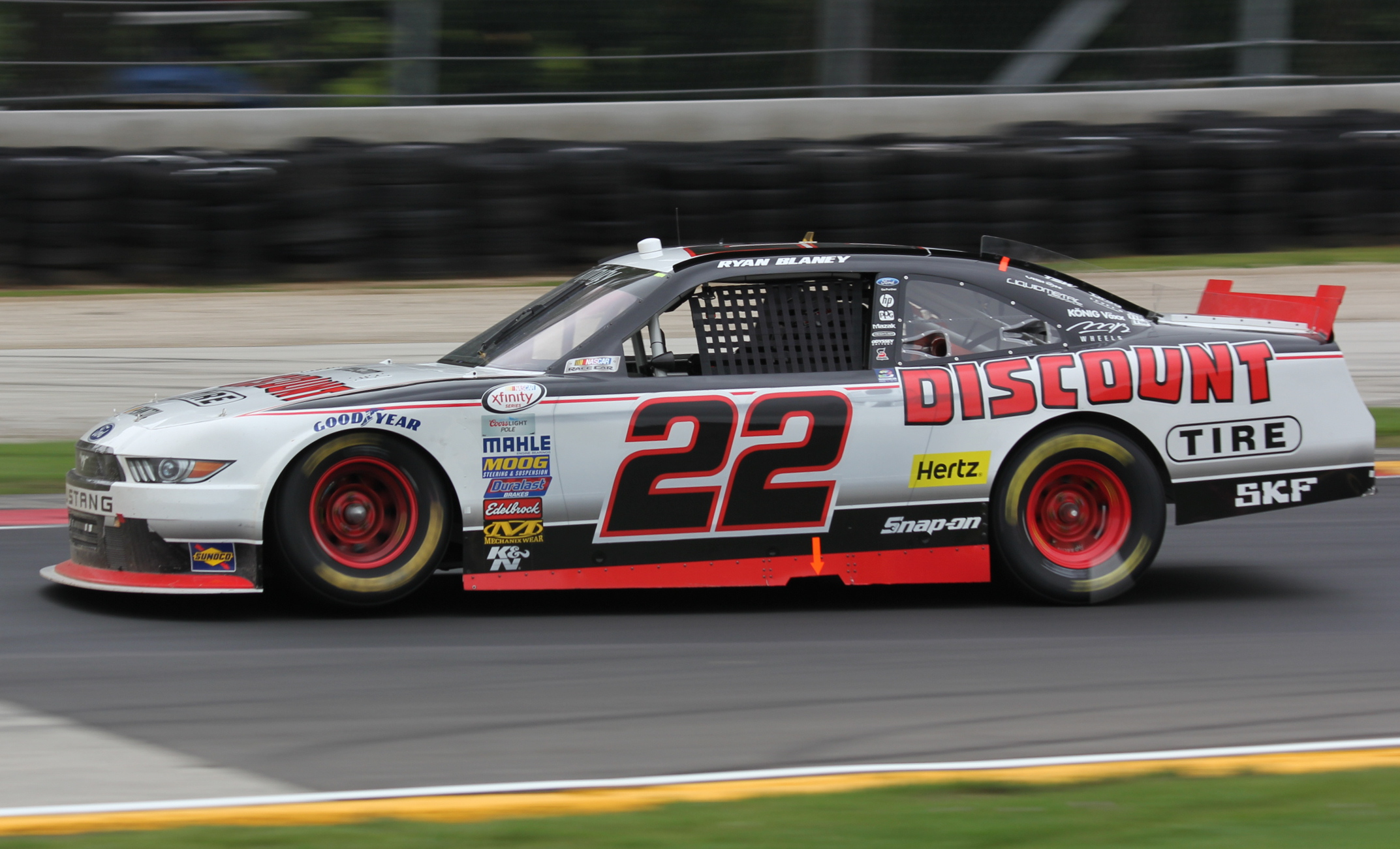 The NASCAR Xfinity Series car of Ryan Blaney turning left in Turn 6 at Road America.